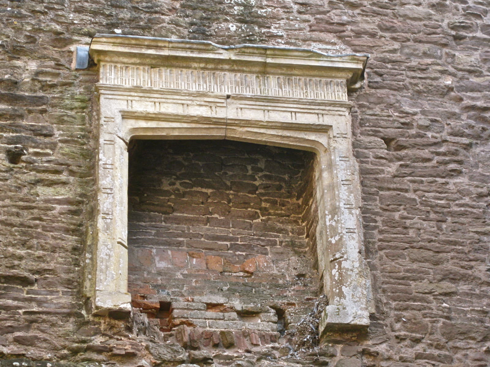 Raglan Castle. Upper floor Renaissance fireplace